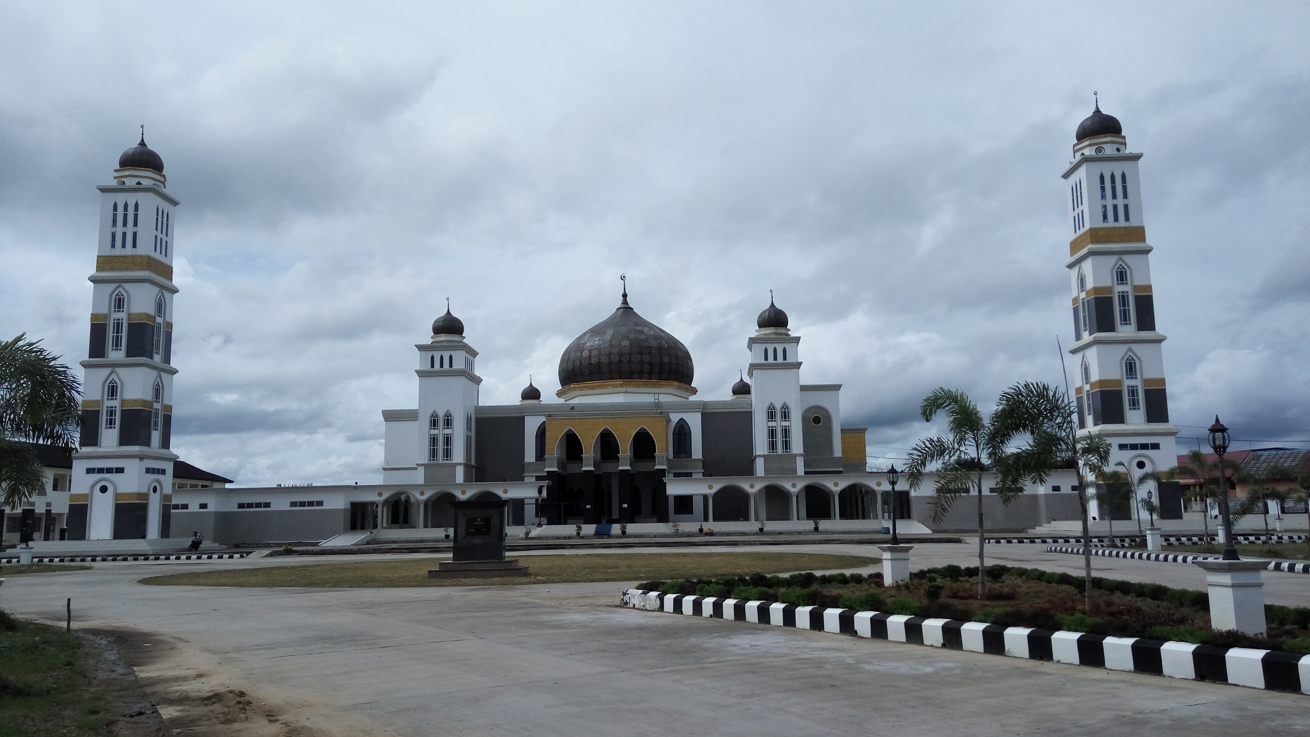 West Kutai Islamic Center Mosque